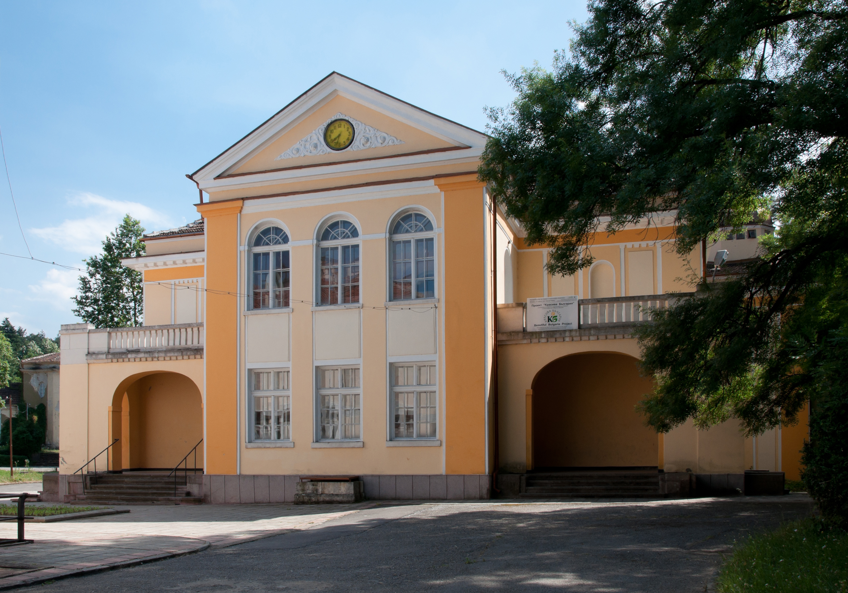 The second Mineral spa building in Varshets, Bulgaria. Completed in 1919.